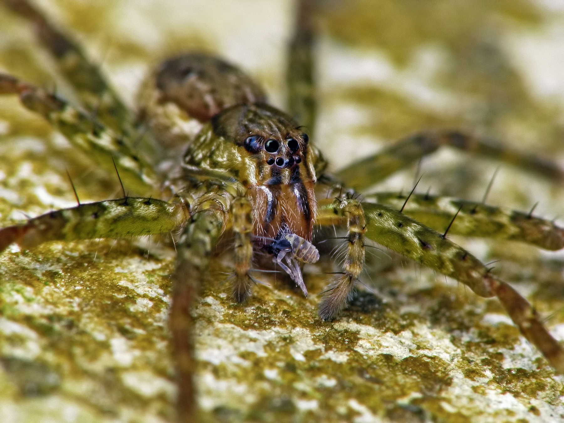 Frontal macro of a Trechaleidae spider with prey, from the atlantic forest (rainforest) in Carlos Botelho State Park, São Miguel Arcanjo, São Paulo, Brazil.